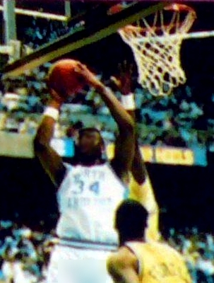 North Carolina Tar Heels sophomore basketball player J. R. Reid shooting the ball at a home game during the 1987-88 NCAA Division I college basketball season.